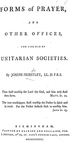 Title page from Forms of Prayer